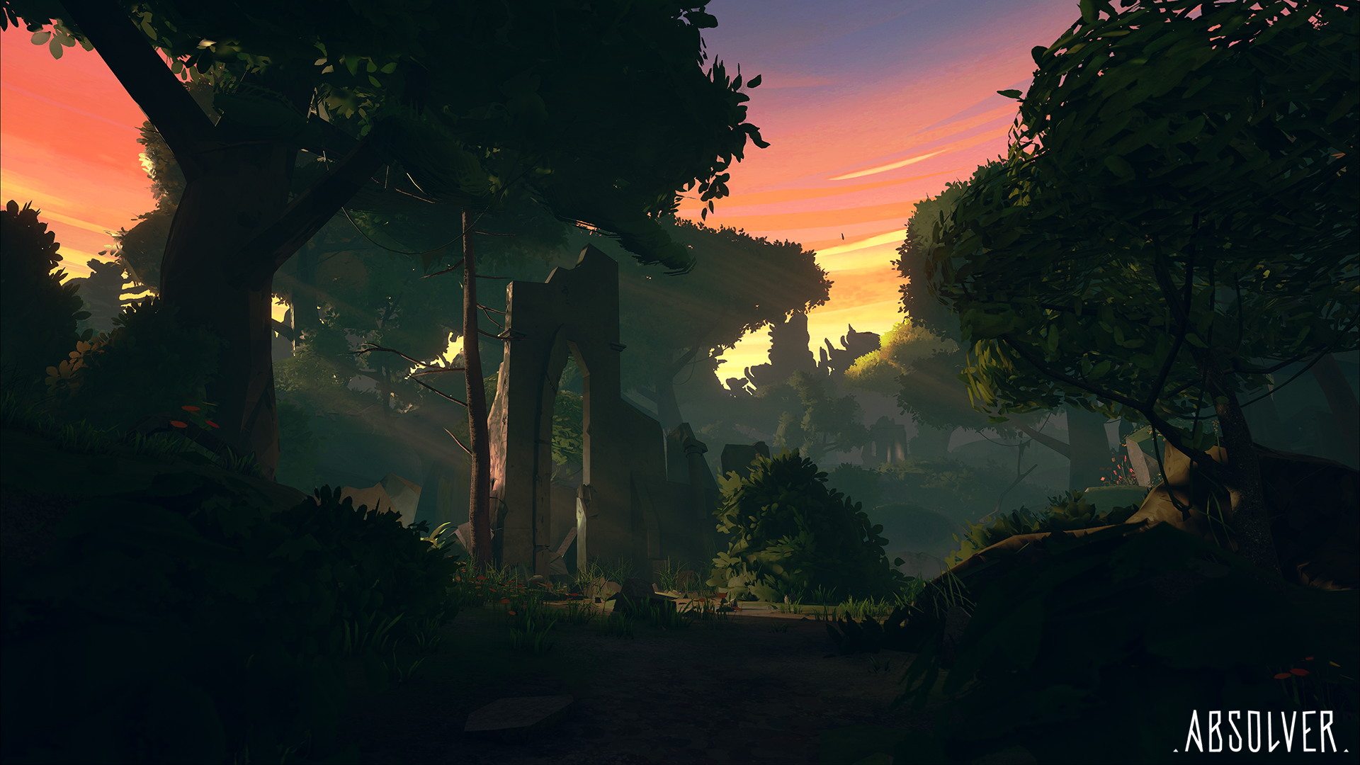 Absolver screenshot of gameplay